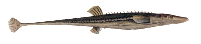 Spinachia spinachia